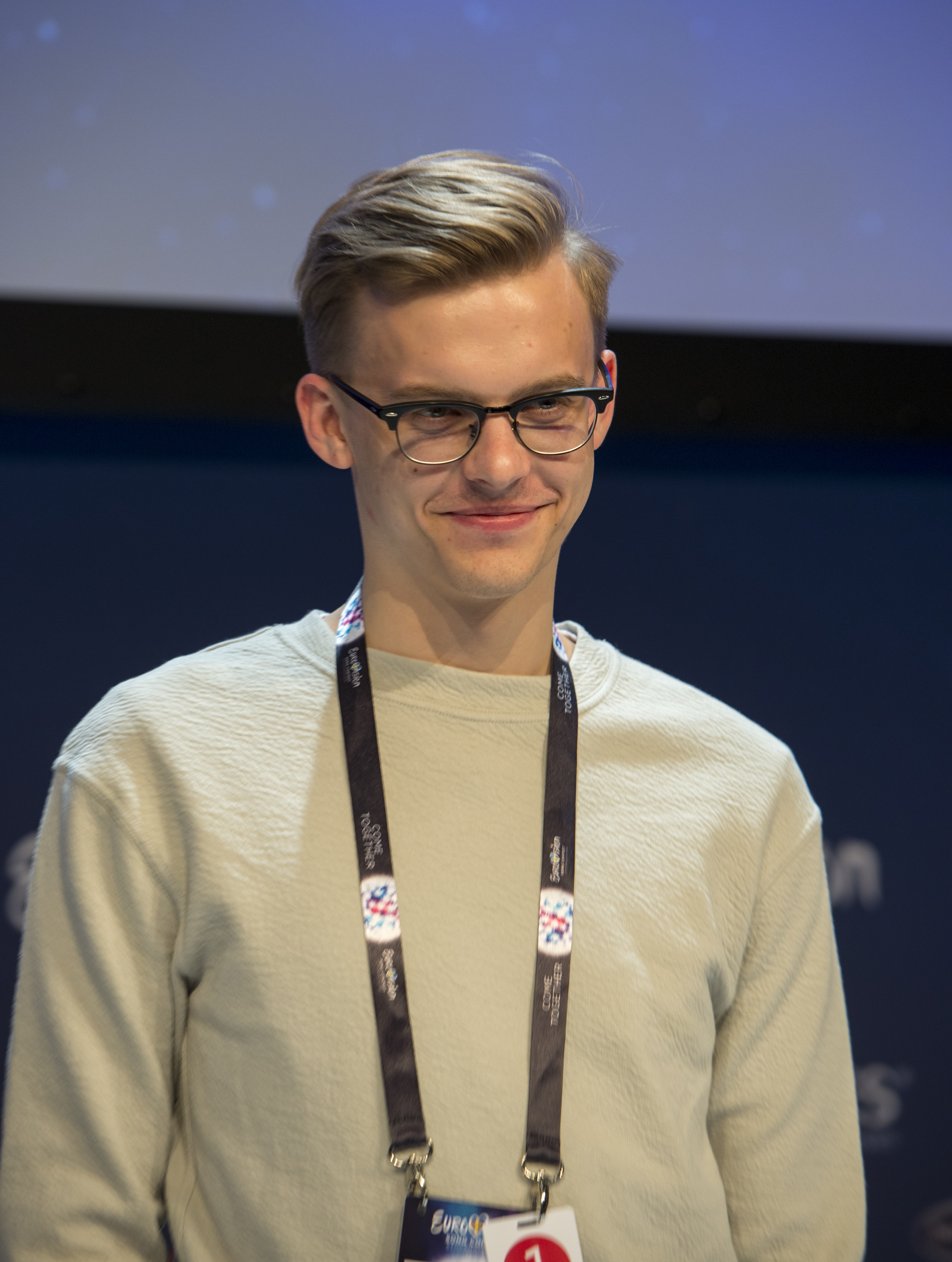 Jüri Pootsmann at a Meet & Greet during the Eurovision Song Contest 2016 in Stockholm. (Help translate this text)